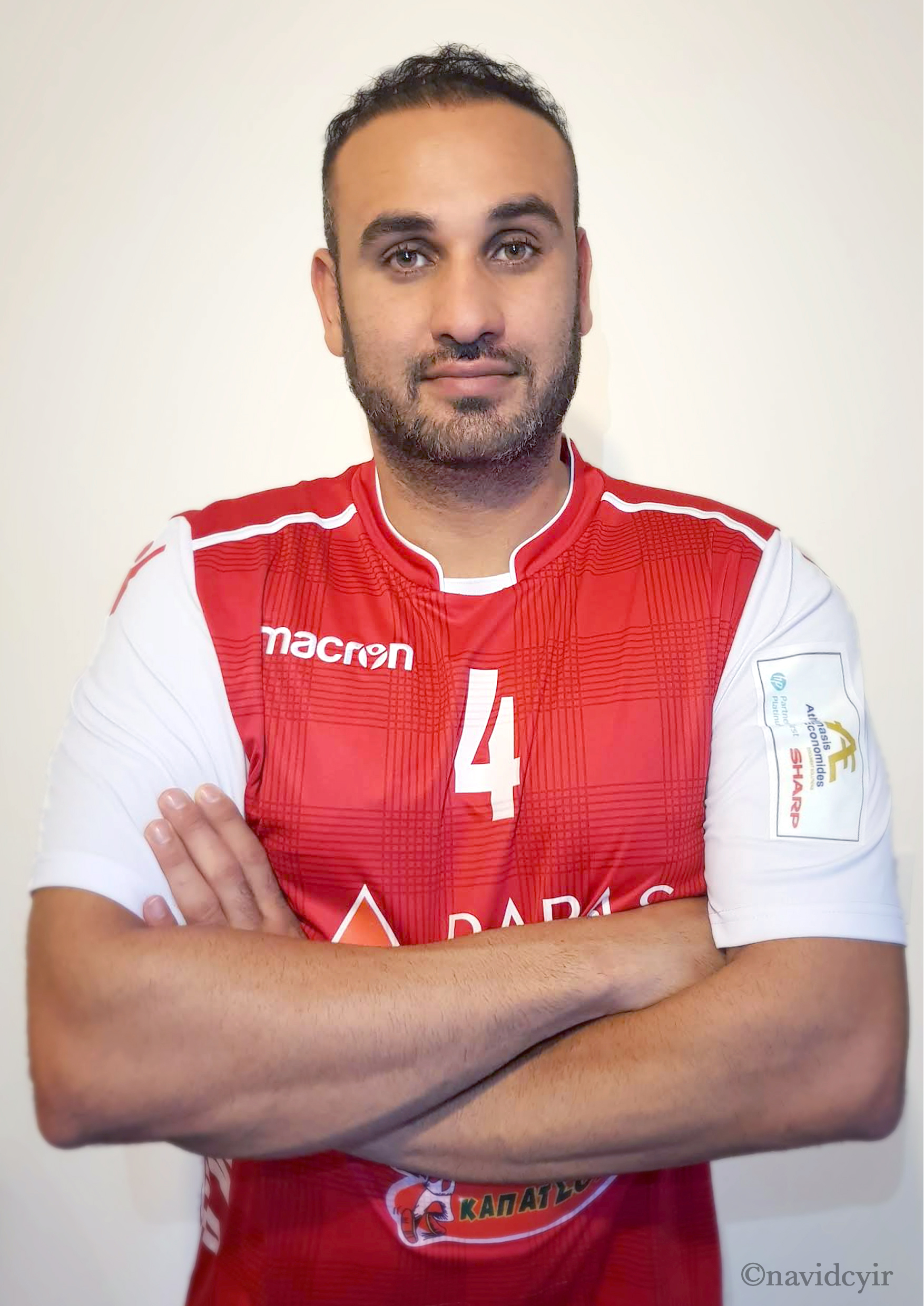 Omid Homayoun - Diagonal Spiker playing for Salamina Volleyball Club in Limassol Cyprus 2020